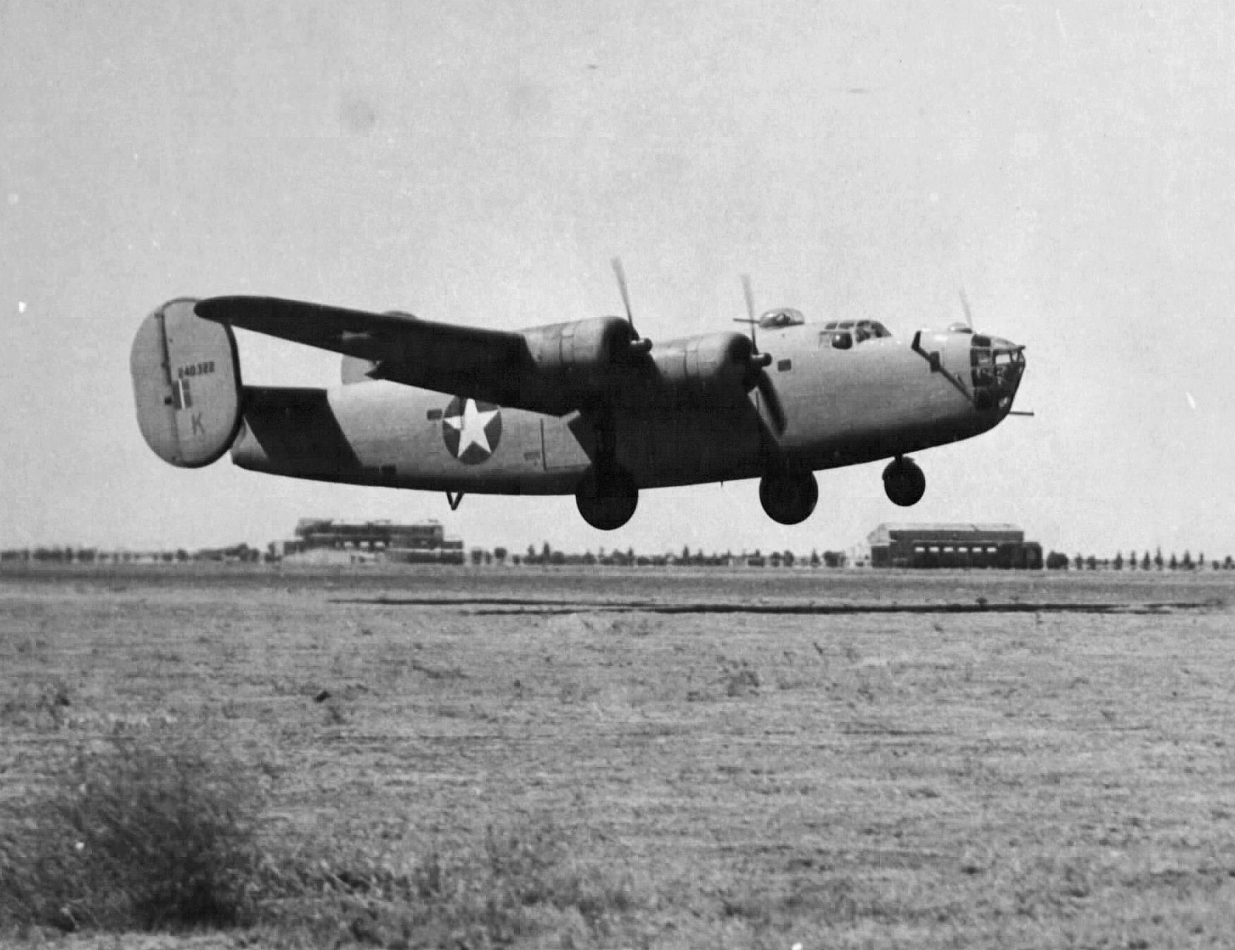 "Cornhusker" B-24D-45-CO Liberator s/n 42-40322 415th Bombardment Squadron, 98th Bombardment Group Shot down over the Ionian Sea by Bf109G's from JG 27/IV while returning from the August 1,1943 low-level mission to Ploesti,Romania. All 10 crew members were KIA. MACR 178 Photo taken at Tobruk or Benina Airfield, Libya